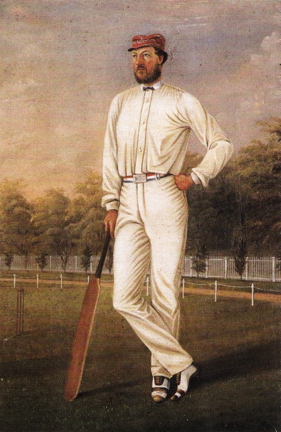 Oil painting of Australian sportsman Tom Wills, held in the collection of the Melbourne Cricket Club.